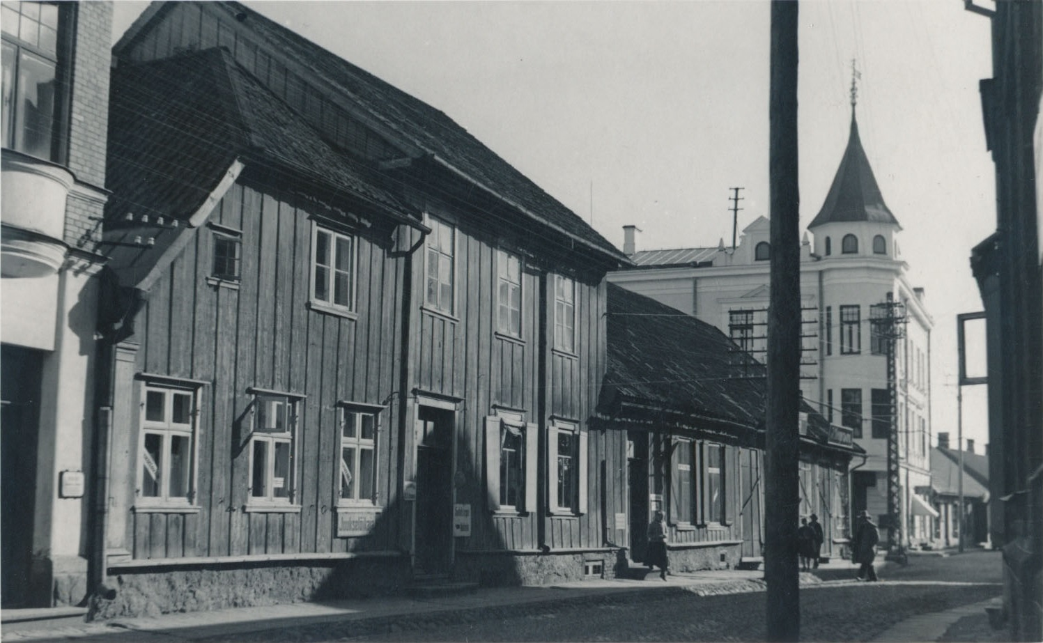 Tartu street, Viljandi, ca 1920